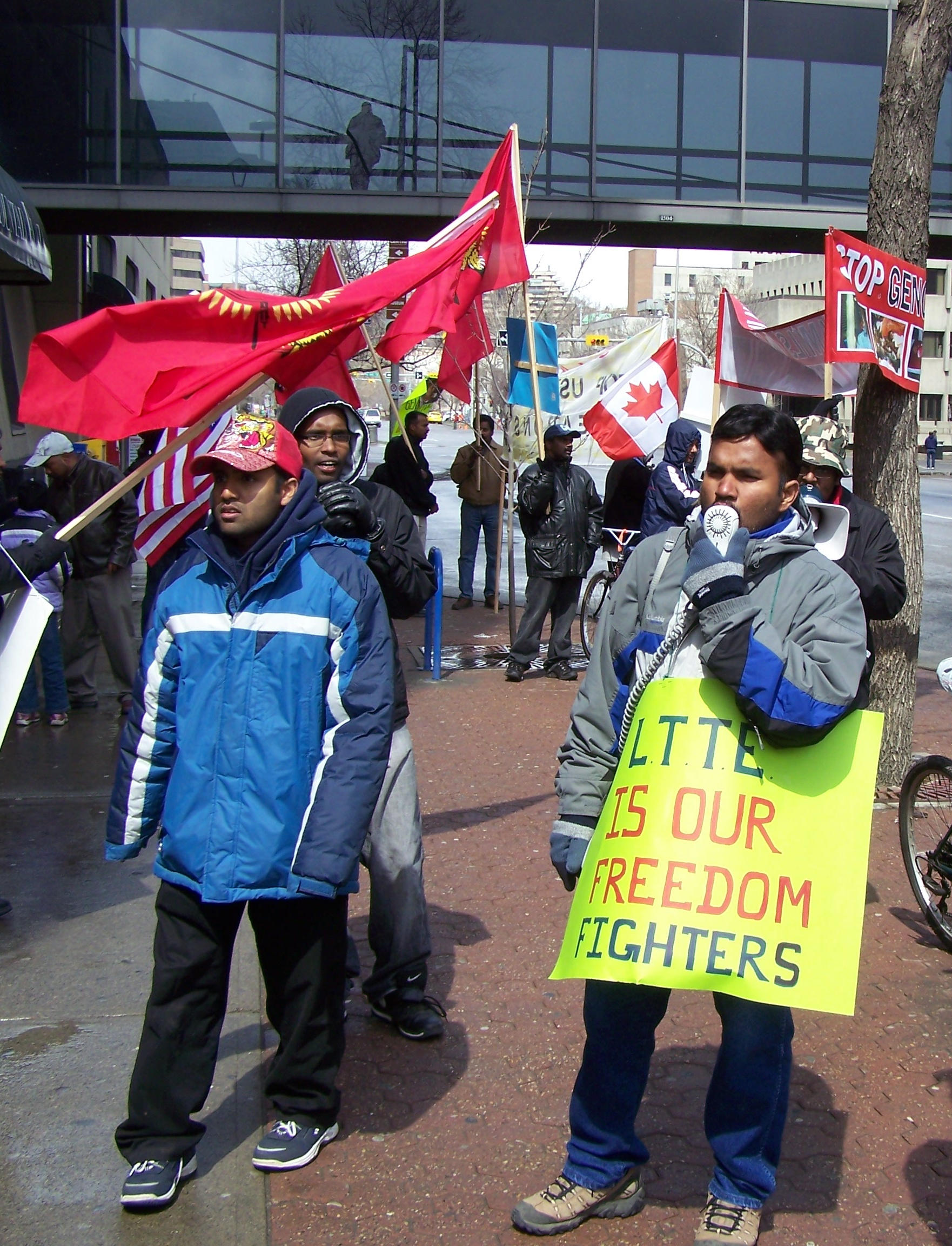 Tamil Canadians protested outside the U.S. consulate in downtown Calgary, Alberta, Canada. They protested against the Sri Lankan governmnet, and in favour of the Tamil Tigers. They were seeking a cease fire to the civil war.